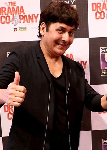 Sudesh Lehri attend the press conference of the show The Drama Company.